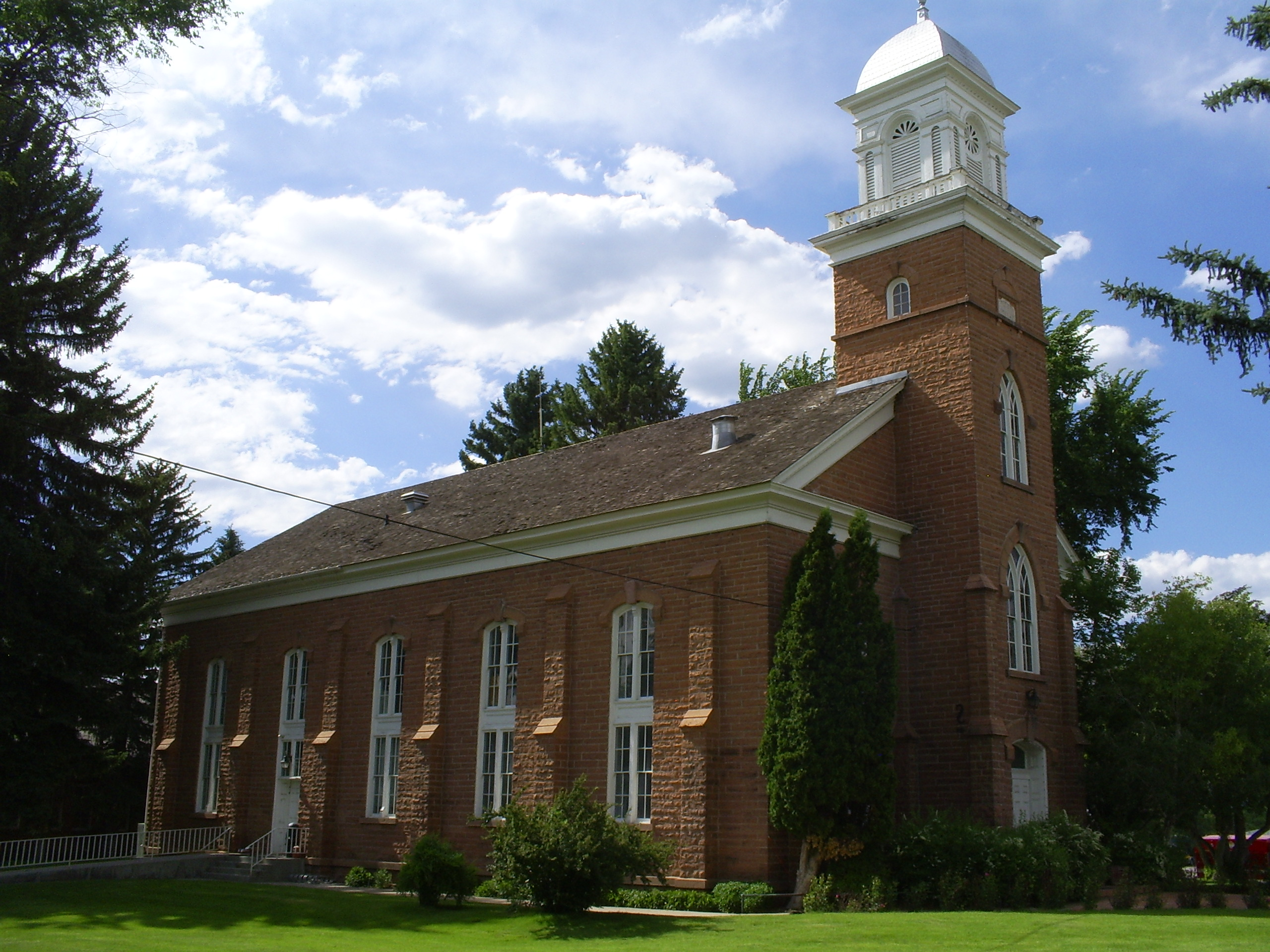 The Wasatch Stake Tabernacle (built 1887-89) of The Church of Jesus Christ of Latter-day Saints (Mormon or LDS Church) is located at 75 North Main Street, Heber, Utah. In 1965 it was sold by the church to Heber City, which continues to use the building today for municipal offices. This picture depicts the front (west) and south sides of the building.